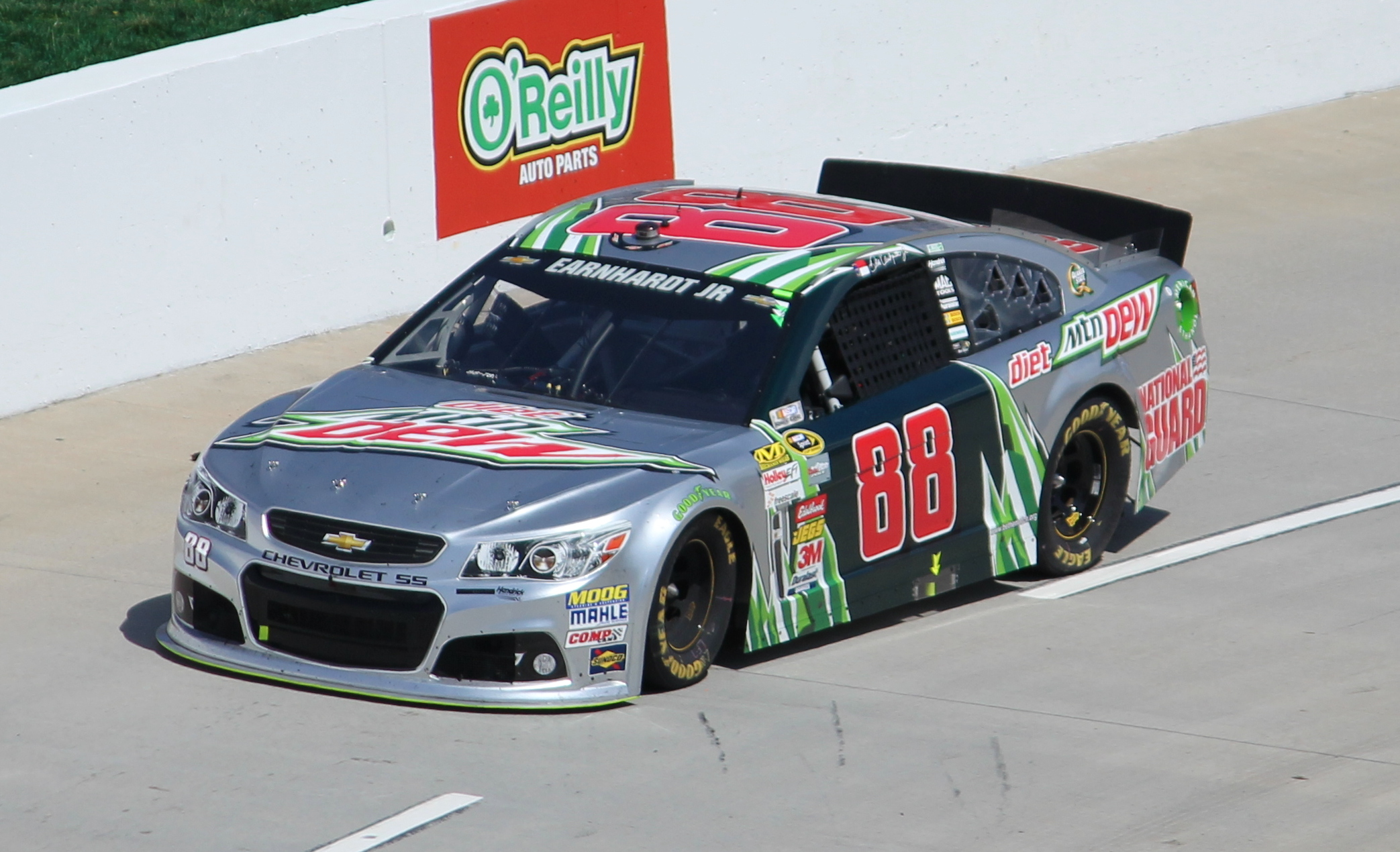 Dale Earnhardt, Jr. during the 2013 STP Gas Booster 500 at Martinsville Speedway. (April 7, 2013)